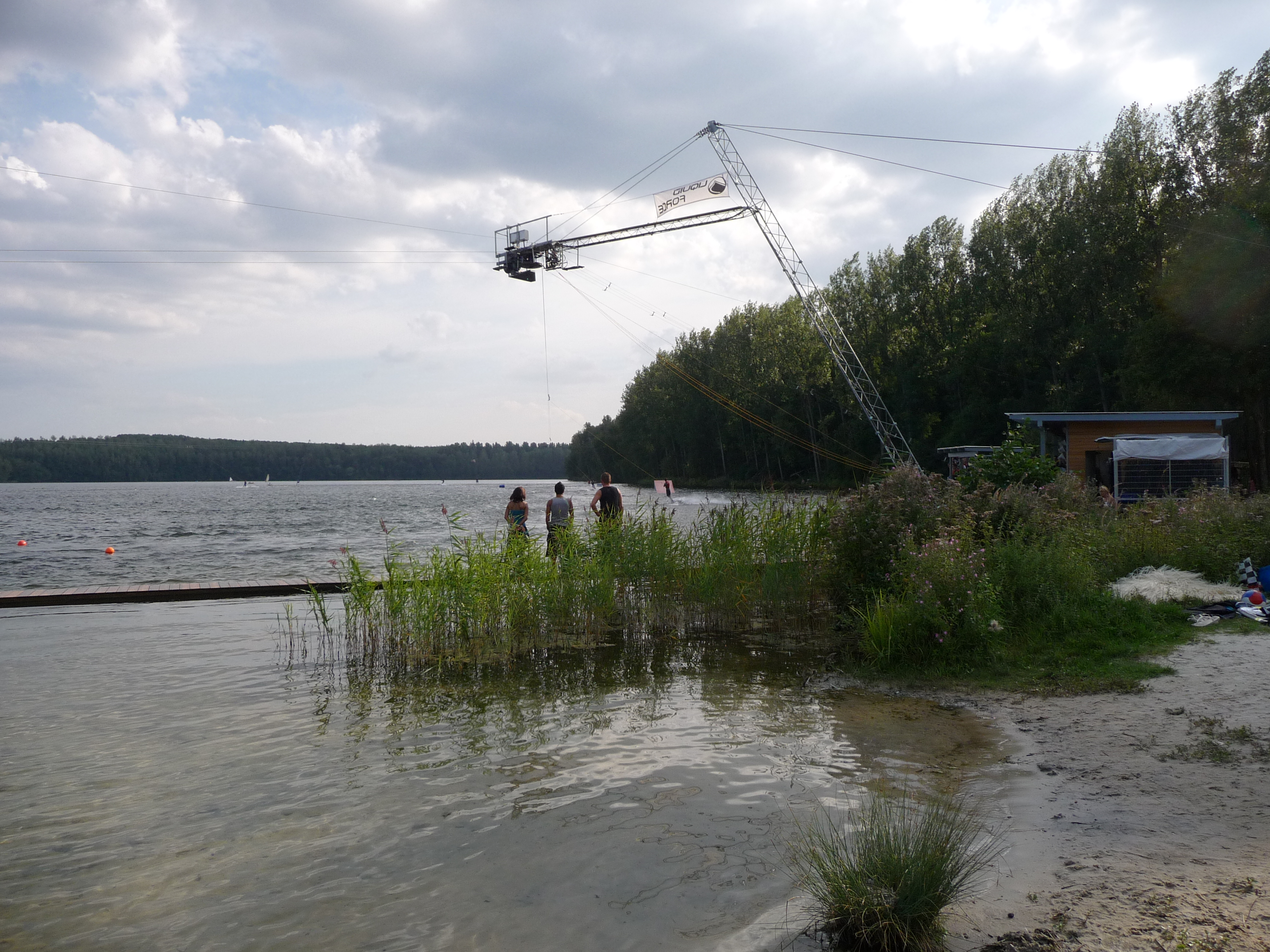 Bleibtreusee, Brühl in North Rhine-Westphalia